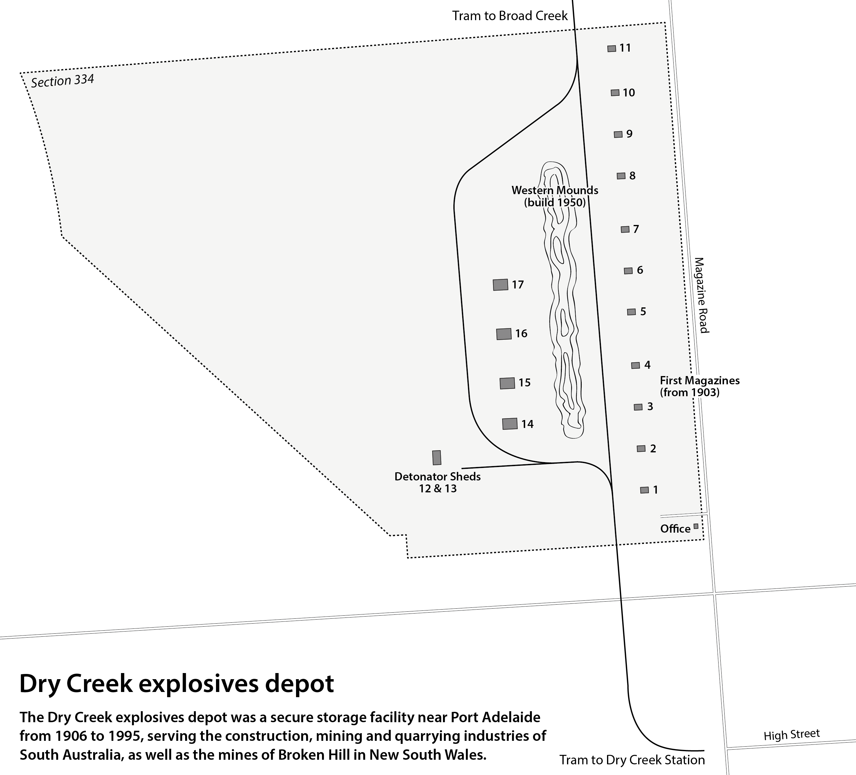 Map of the Dry Creek explosives depot in Adelaide